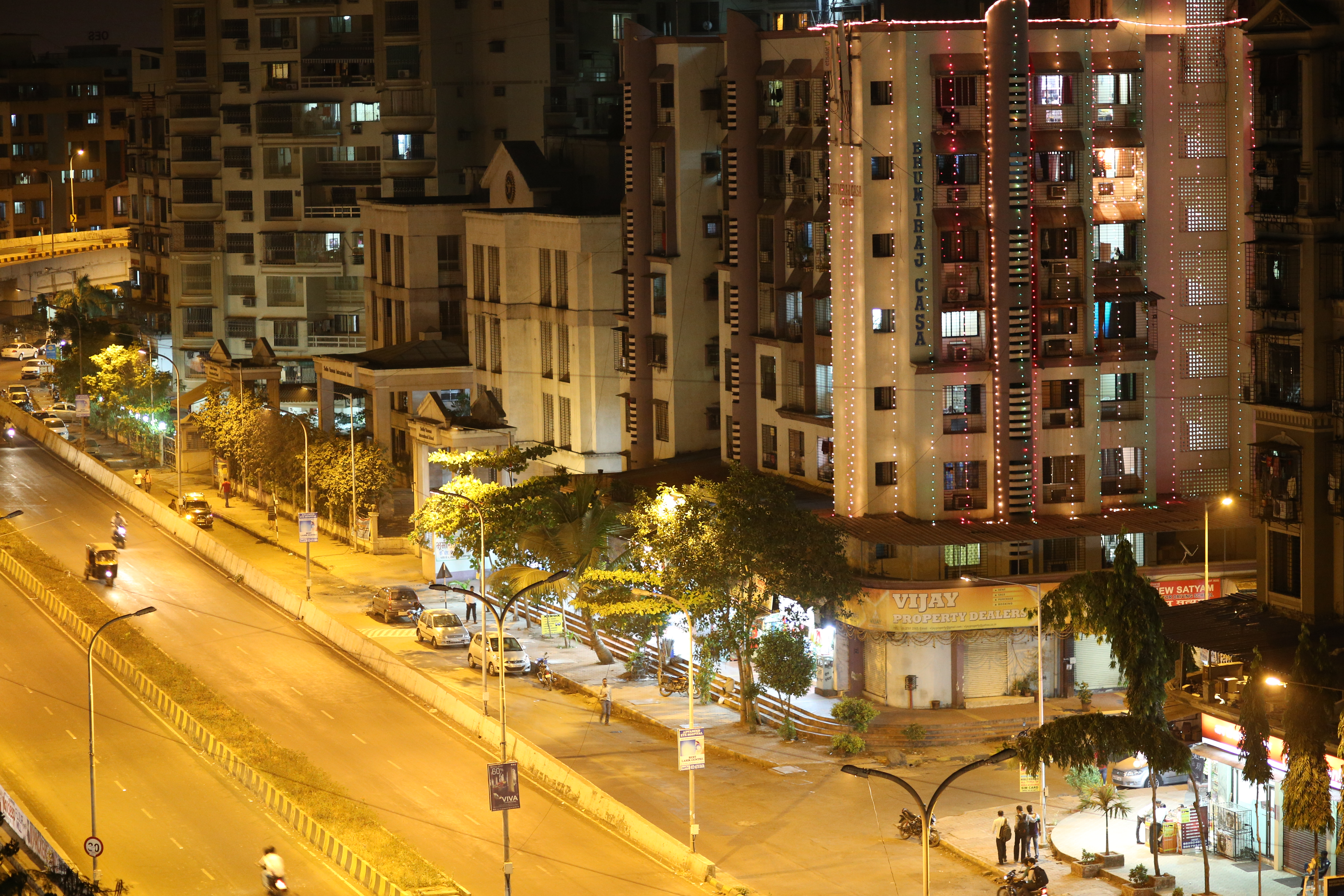 Sample image clicked with Canon EF 100mm f/2.0 USM lens in low light to demonstrate lens characteristics, to be included in page on Canon EF 100mm lenses